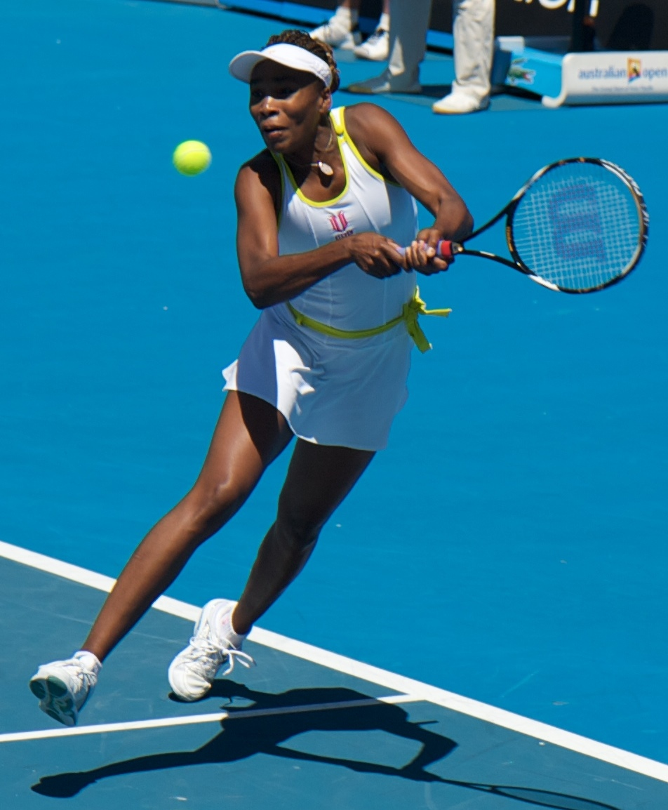 Venus Williams at 2009 Australian Open, Melbourne, Australia.